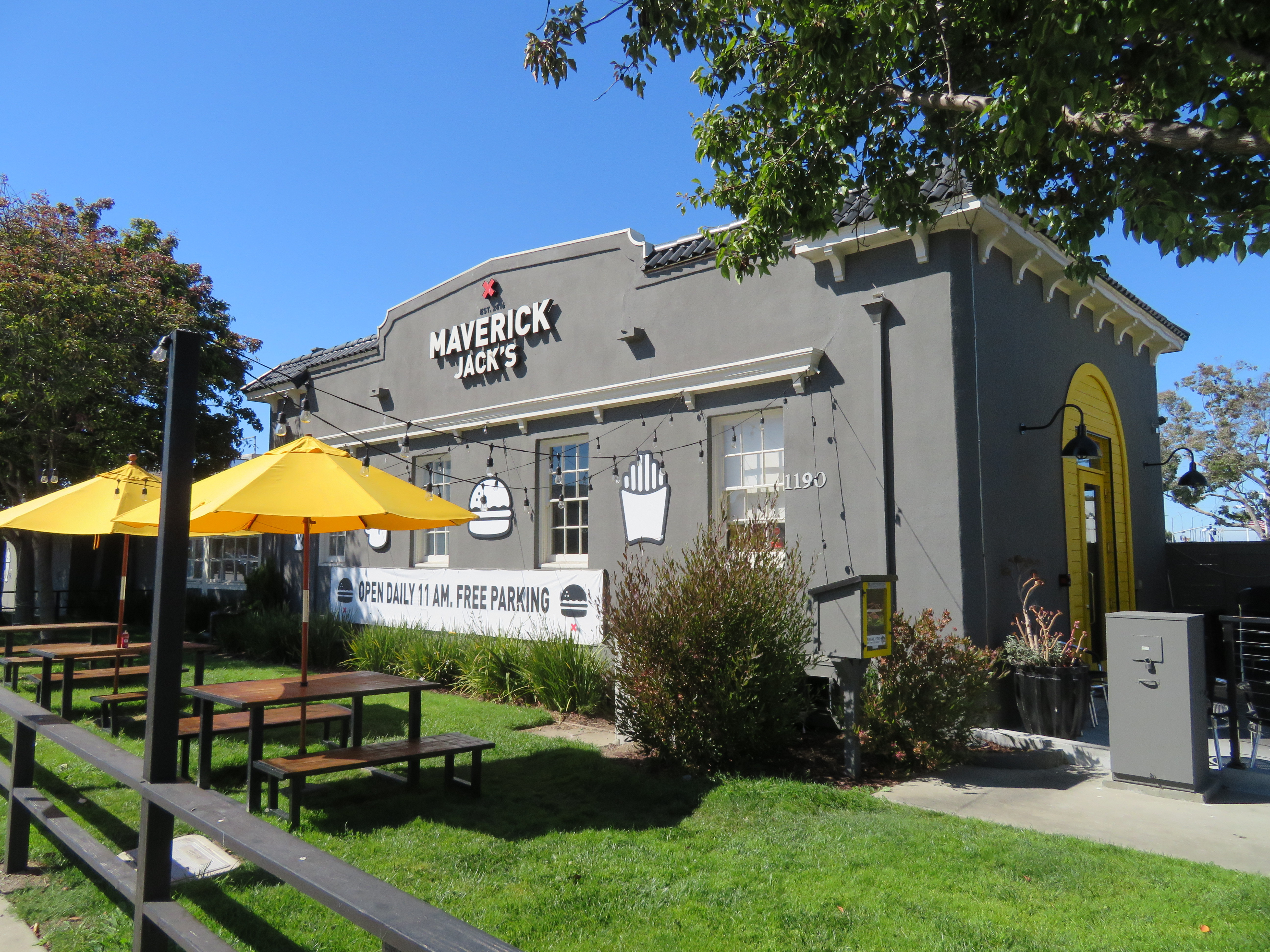 The former station building at Broadway station in August 2018